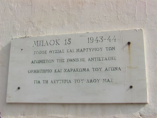 Haidari_concentration_camp_block_15_sign. Credit: Courtesy of Arie Darzi to memorialize the Jewish community in Greece.